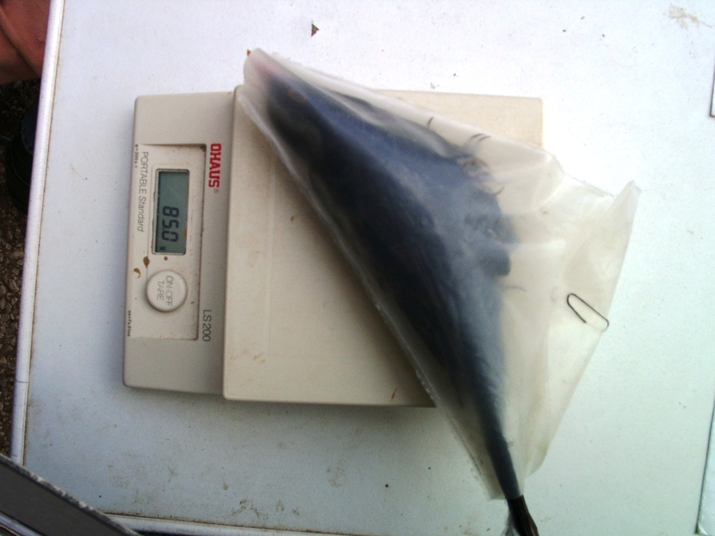 Bird ringing (bird banding) sequence, picture 8: Weighing the bird. This particular Eurasian Blackbird, Turdus merula, weighed 85 grams. Cruzinha, Portimão, Portugal.